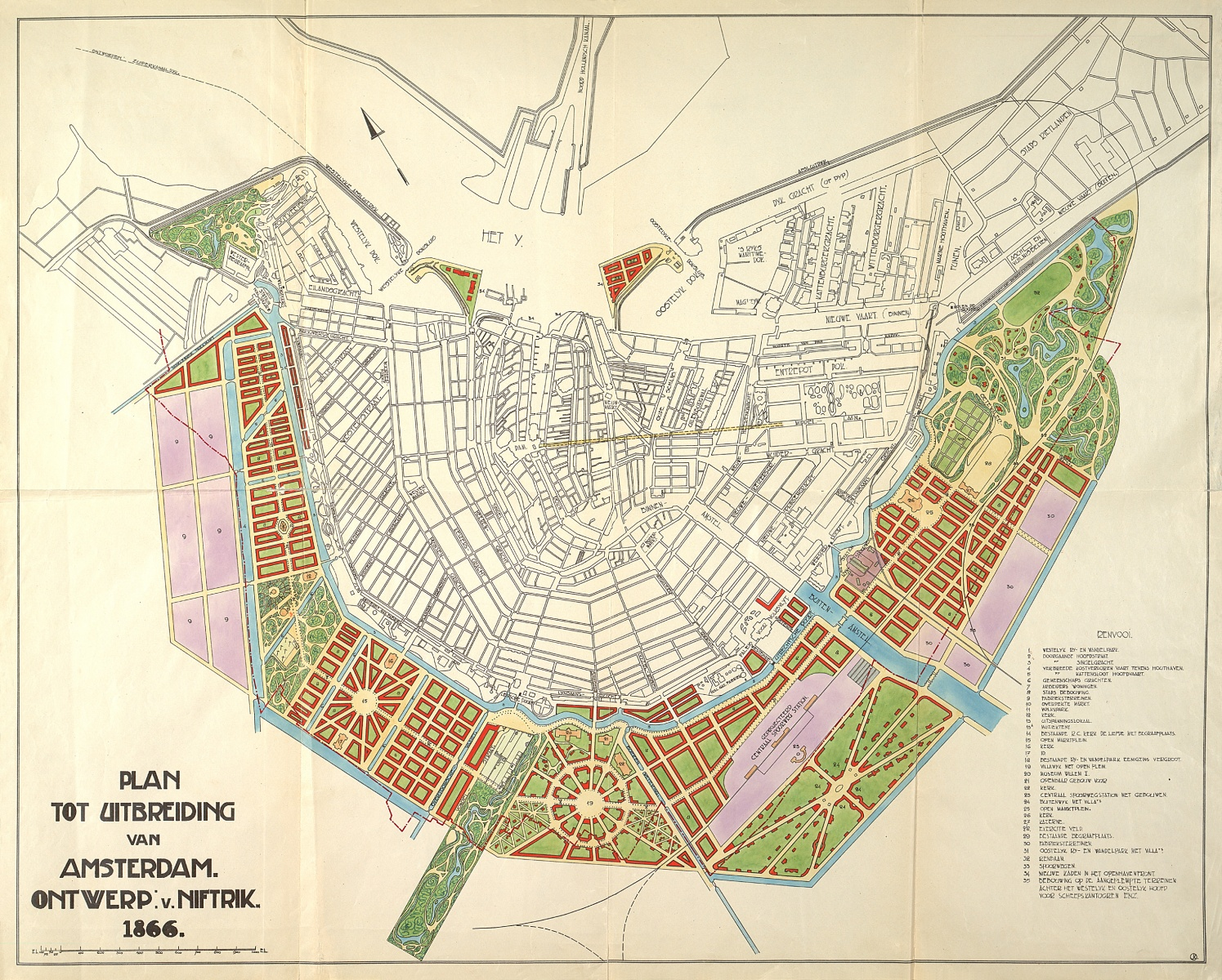 Amsterdam expansion plan from Jacobus van Niftrik 1866.